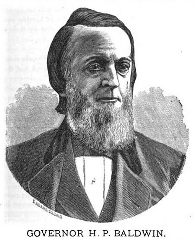 Engraving of Henry P. Baldwin